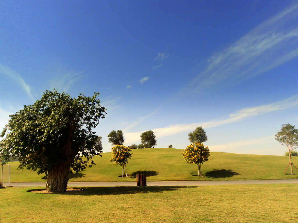 a beautiful day in the aspire park in doha -in december